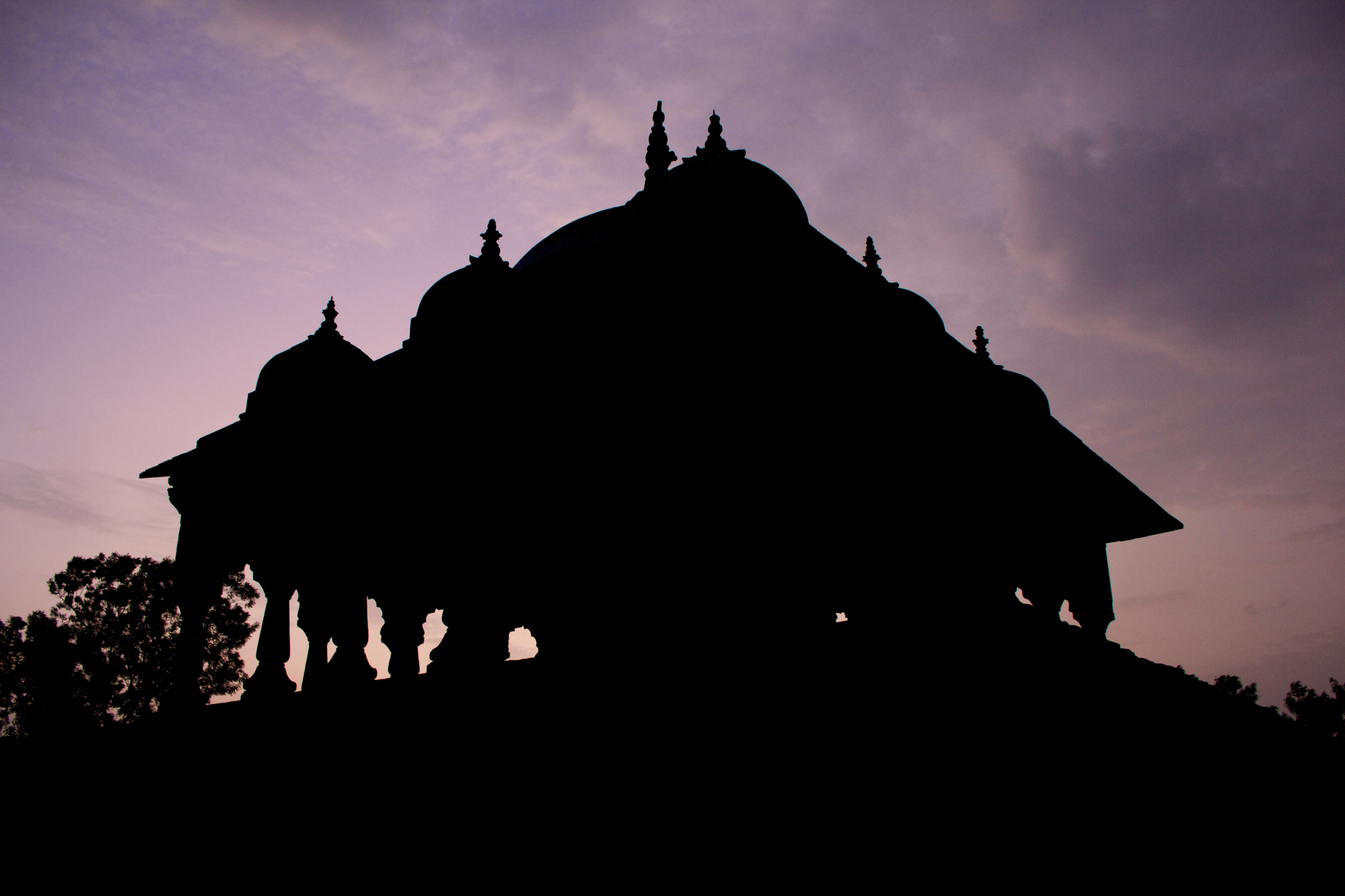 Raja ki Chatri is notable monument which is situated on the bank of the Tapti river about 4 miles from Burhanpur. This Chatri was constructed by the order of Emperor Aurangzeb in honour of the memory of Raja Jai Singh, the Commander of the Mughal force in Deccan. Raja Jai Singh while returning from the Deccan died at Burhanpur.